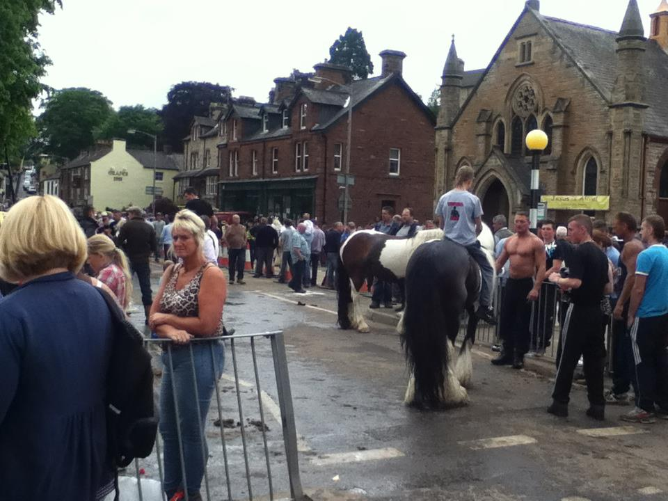 Rumnichals at Appleby Fair